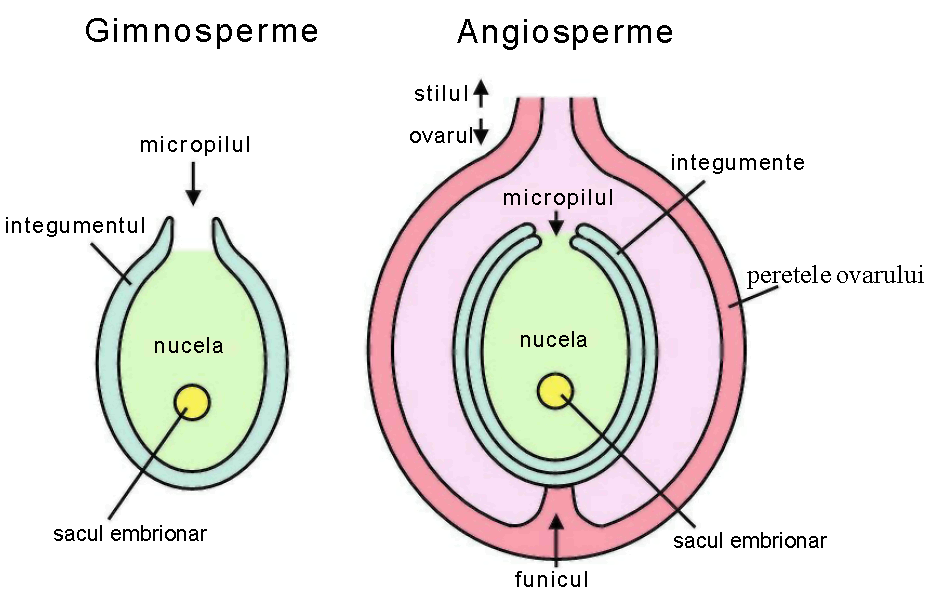 Ovule